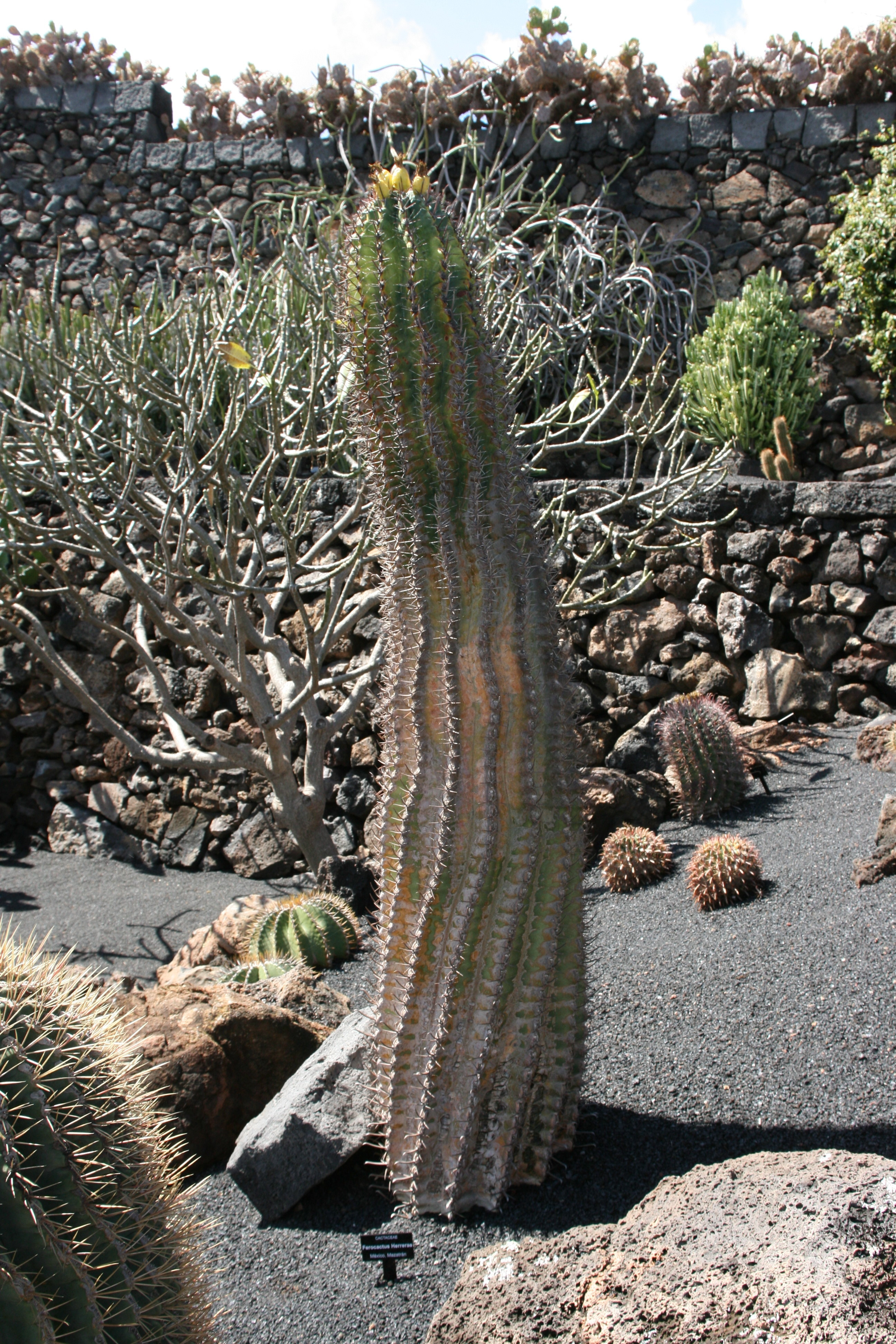 Ferocactus herrerae grown in the Botanical Garden “Jardin de Cactus” in Guatiza, Teguise, Lanzarote, Canary Islands